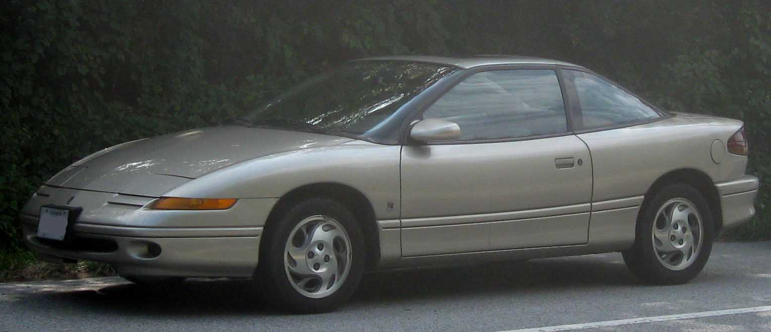 Saturn SC photographed in College Park, Maryland, USA.